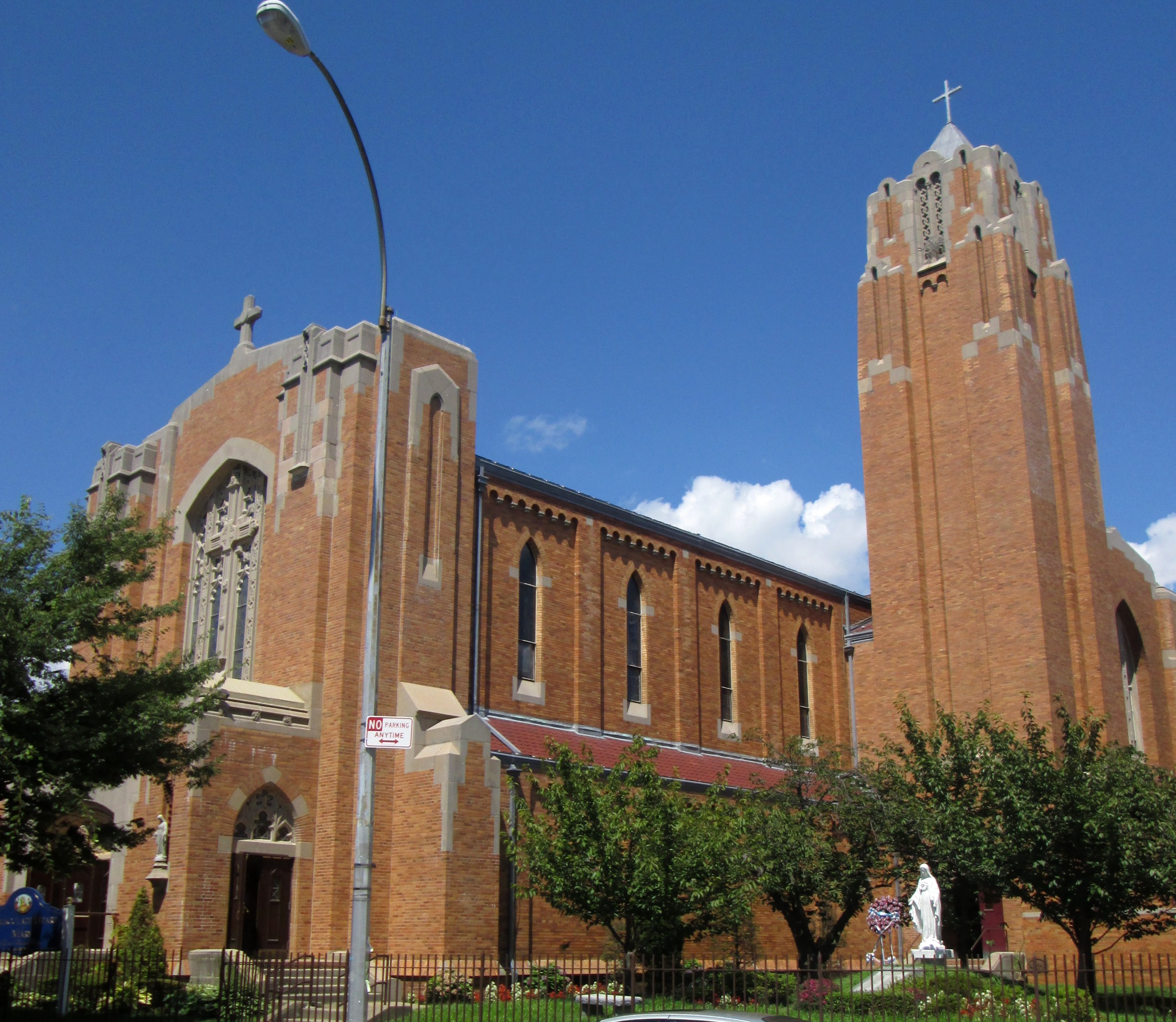 The Immaculate Heart of Mary Roman Catholic Church at 2805 Fort Hamilton Parkway at the corner of East 4th Street in the Windsor Terrace neighborhood of Brooklyn, New York City was founded in 1893. The congregation worshiped at a hall on Vanderbilt Avenue in Windsor Terrace before building a church on Ocean Parkway. The present church in the Art Deco and Gothic Revival styles was built in 1931-32. (Source: NYCAGO)